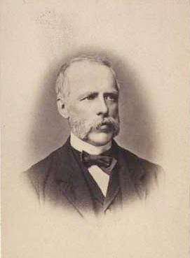 Alfred Franz Carl Reventlow-Criminil (1825-1898), Danish Count and diplomat, German estate owner